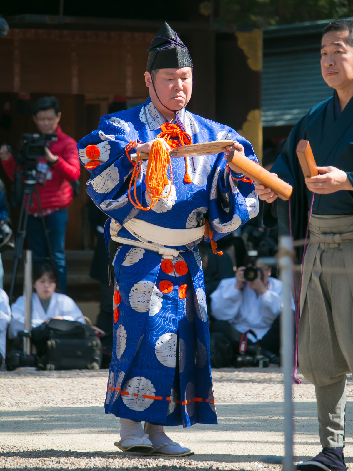 11en Shikimori Kandayu (Gyōji) in Sumiyoshi taisha.